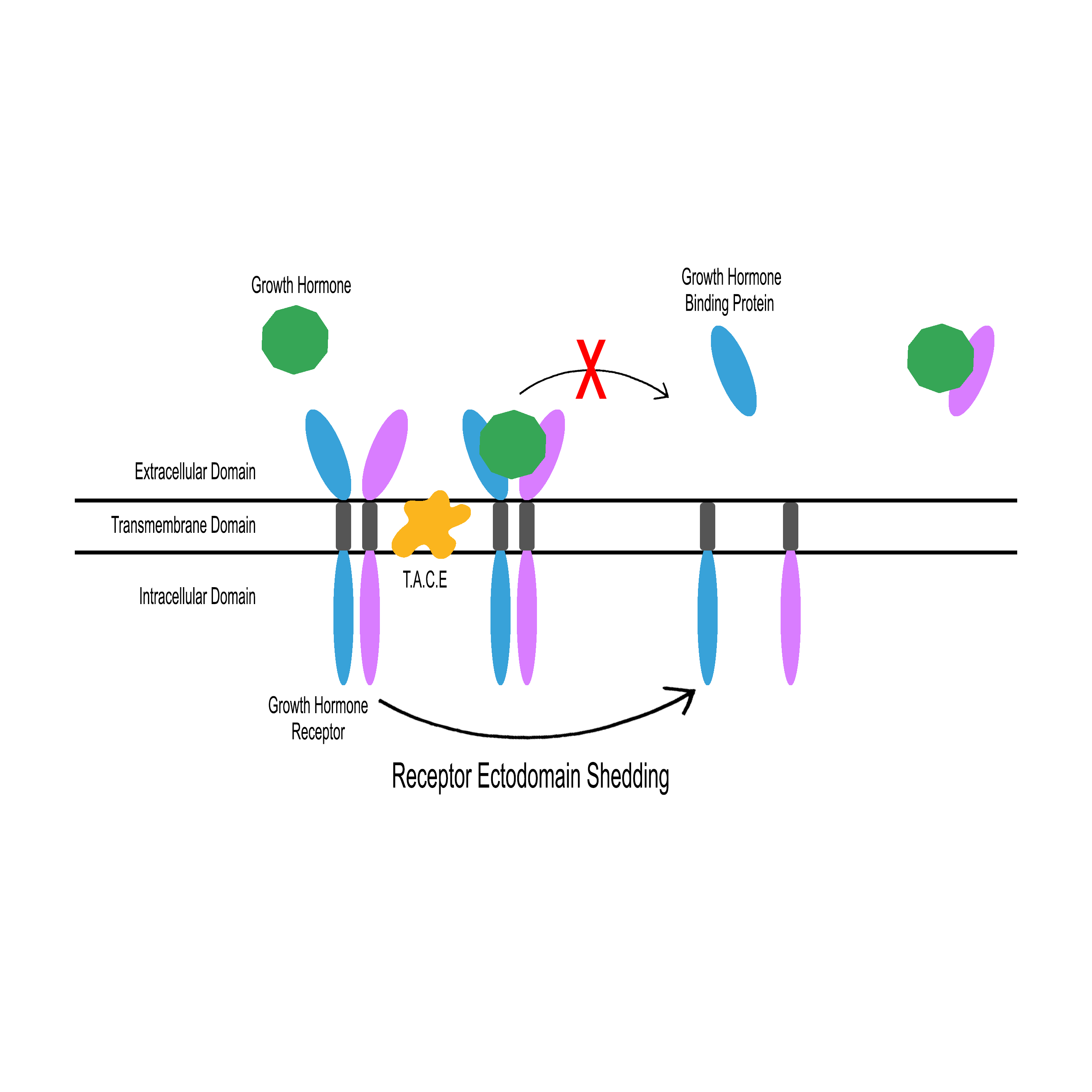 TACE activity on growth hormone receptor to release growth hormone binding protein.